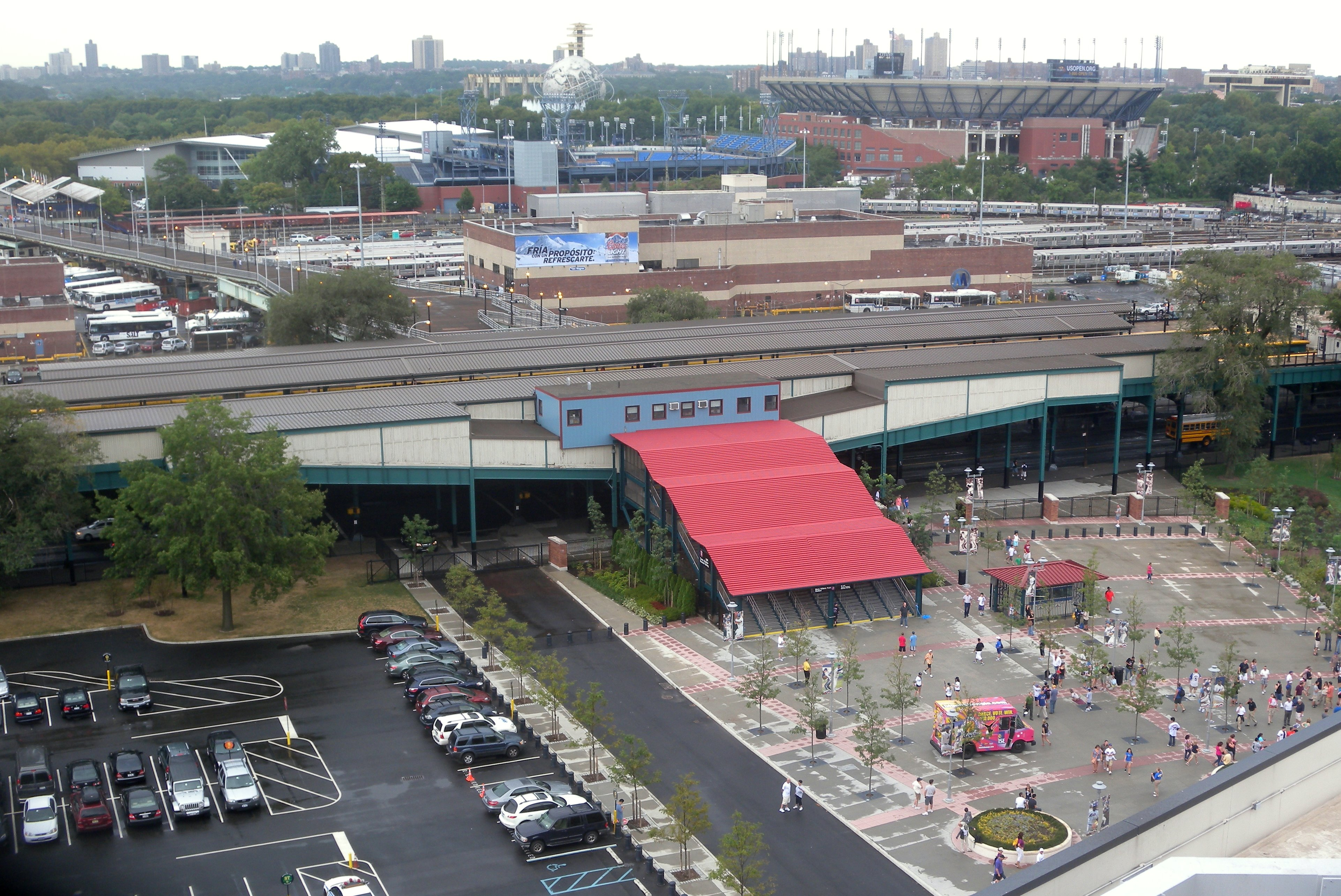 Looking southwest from top tier behind home plate of Citi Field on a cloudy afternoon.